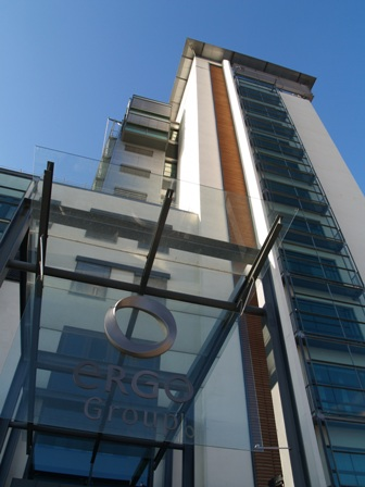 IT-Company ErgoGroup's Headquarter. Placed in Nydalen, Oslo, Norway.